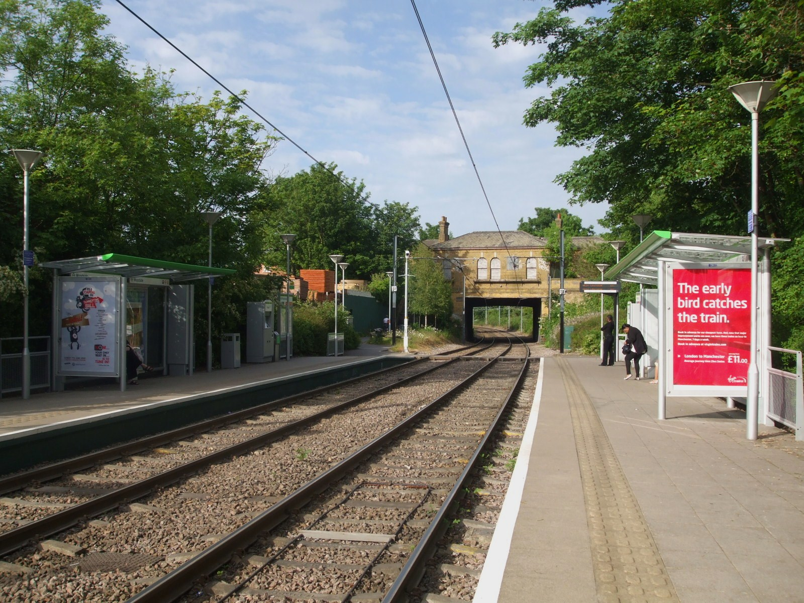 Woodside tram stop looking north. This is the former site of the main line Woodside station, whose disused, but intact, station building can be seen ahead.